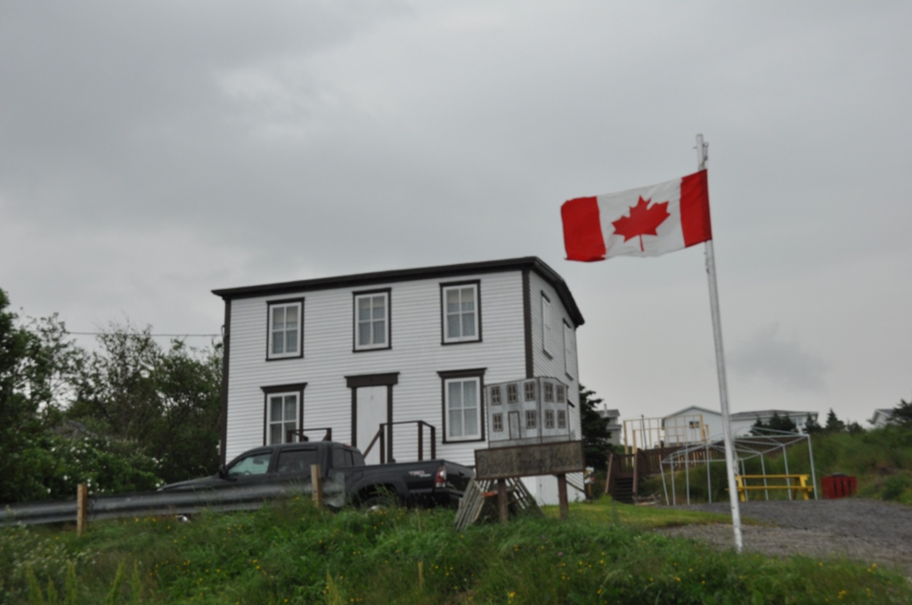 Drake House Registered Heritage Structure, Arnold's Cove, Newfoundland.